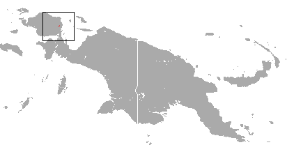 Arfak Pygmy Bandicoot (Microperoryctes aplini) range IUCN: Microperoryctes aplini Helgen & Flannery, 2004 (old web site) (Data Deficient)